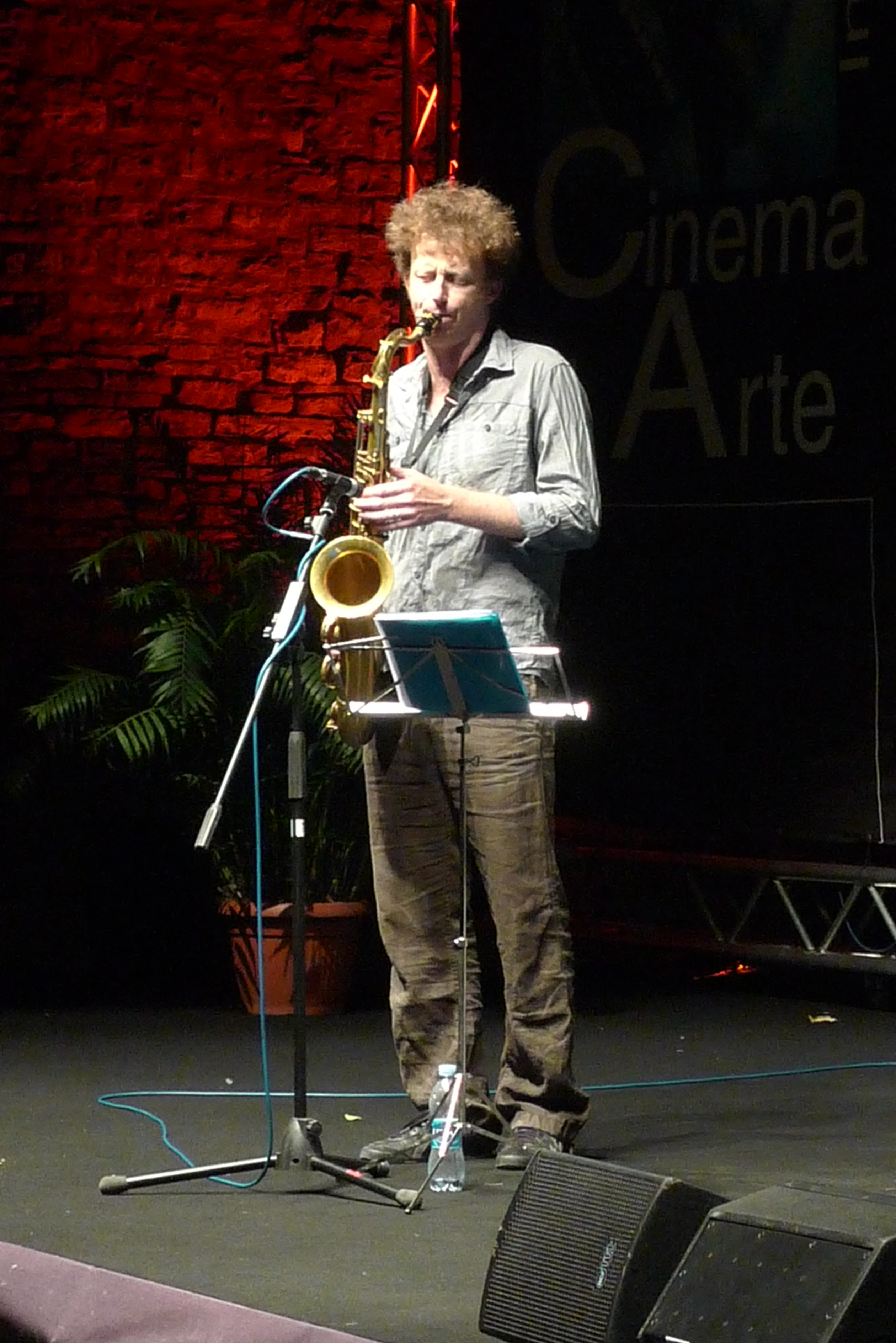 Nicolas Masson with Third Reel @ Bergamo (Festival internazionale del cinema d'arte)